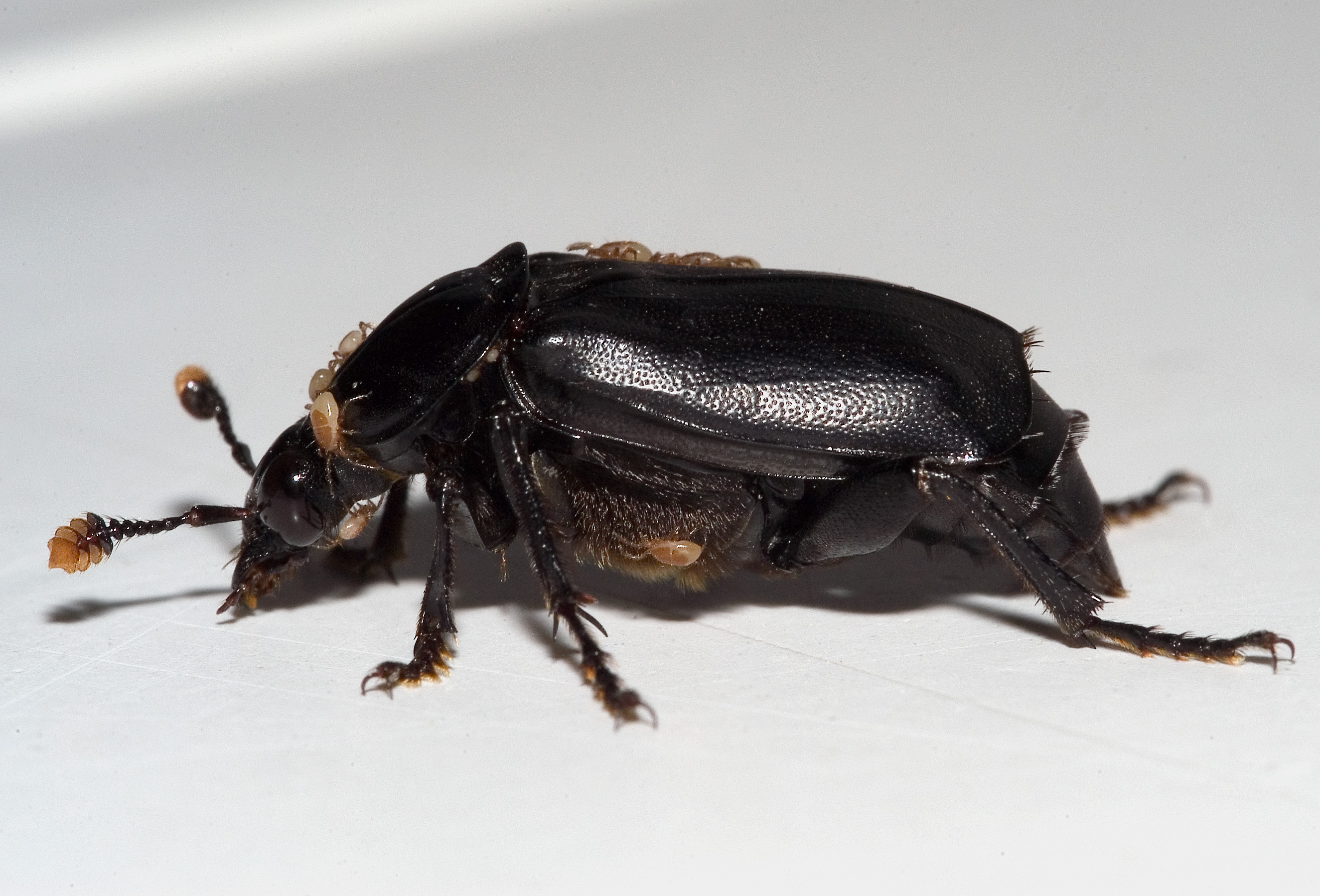 Please report references to kulacgmx.at.